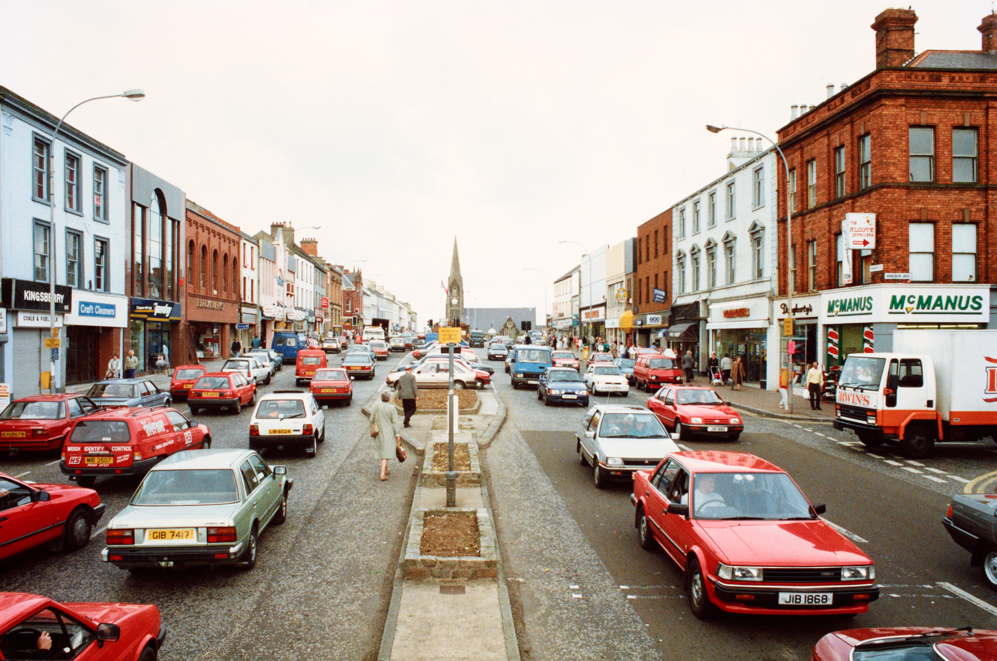 Taken by photographer, G.W.V. Whitcroft. You can compare this view of Lurgan with its companion photo (taken approximately 100 years earlier) as part of the Lawrence Photographic Project 1990/1991, where one thousand photographs from the Lawrence Collection in the National Library of Ireland were replicated a hundred years later by a team of volunteer photographers, thereby creating a record of the changing face of the selected locations all over Ireland. For further information on the Lawrence Photographic Project, read all about it on our NLI Blog. Joefuz has been dying to identify some modern cars for ages, hence this amazing outpouring of vehicle knowledge: "I can see 3 Austin Montegos, 4 Vauxhall Novas, an Astramax van, 2 Ford Escorts (one might be an XR3i), a Renault Traffic van, an RUC Tangi Landrover, a Ford Sierra, a Toyota Liteace, a Mitsubishi Colt, a C Class Mercedes, I think the nose of an Austin Mini Maestro, a Transit van, a Renault 5, a Renault 4 van, a Suzuki Swift, 2 Fiat Pandas and a Nissan Bluebird. The dark grey tail on the right foreground might be a Ford Cortina. The blue car behind the Transit van might be a Peugeot estate. The red car behind the Astramax van might be a Ford Sierra (face lift version, so newer than the one on the other side of the road. The blue car parked in the middle 3rd along might be a 4th Montego. The car being towed by the recovery truck looks to be an old mercedes. The green car in the foreground I think is a Triumph." Date: Saturday, 22 September 1990 at 10:30 (weather conditions - cloudy) NLI Ref.: LPP_14/24